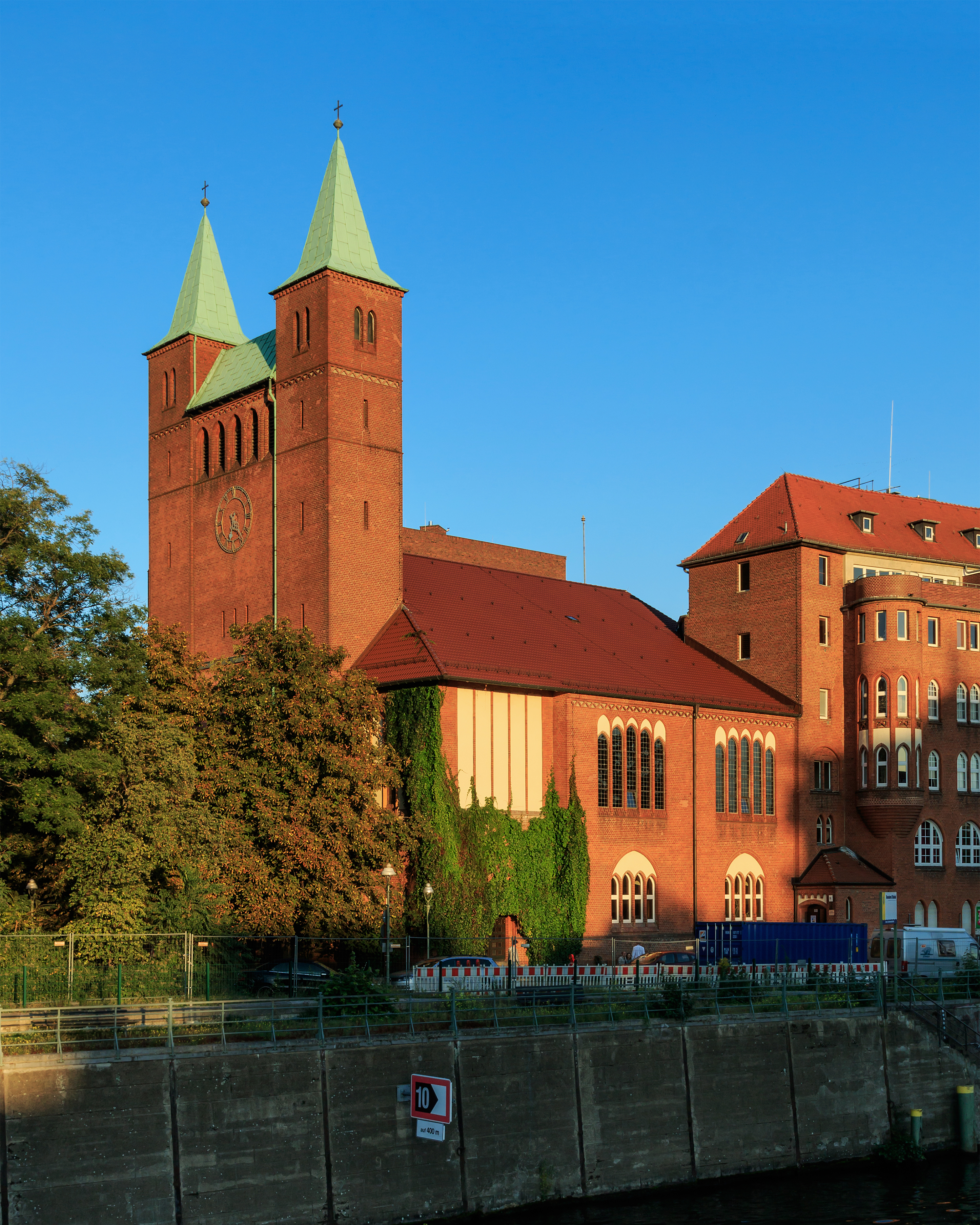 Church of the Saviour in Moabit in Berlin (Germany)